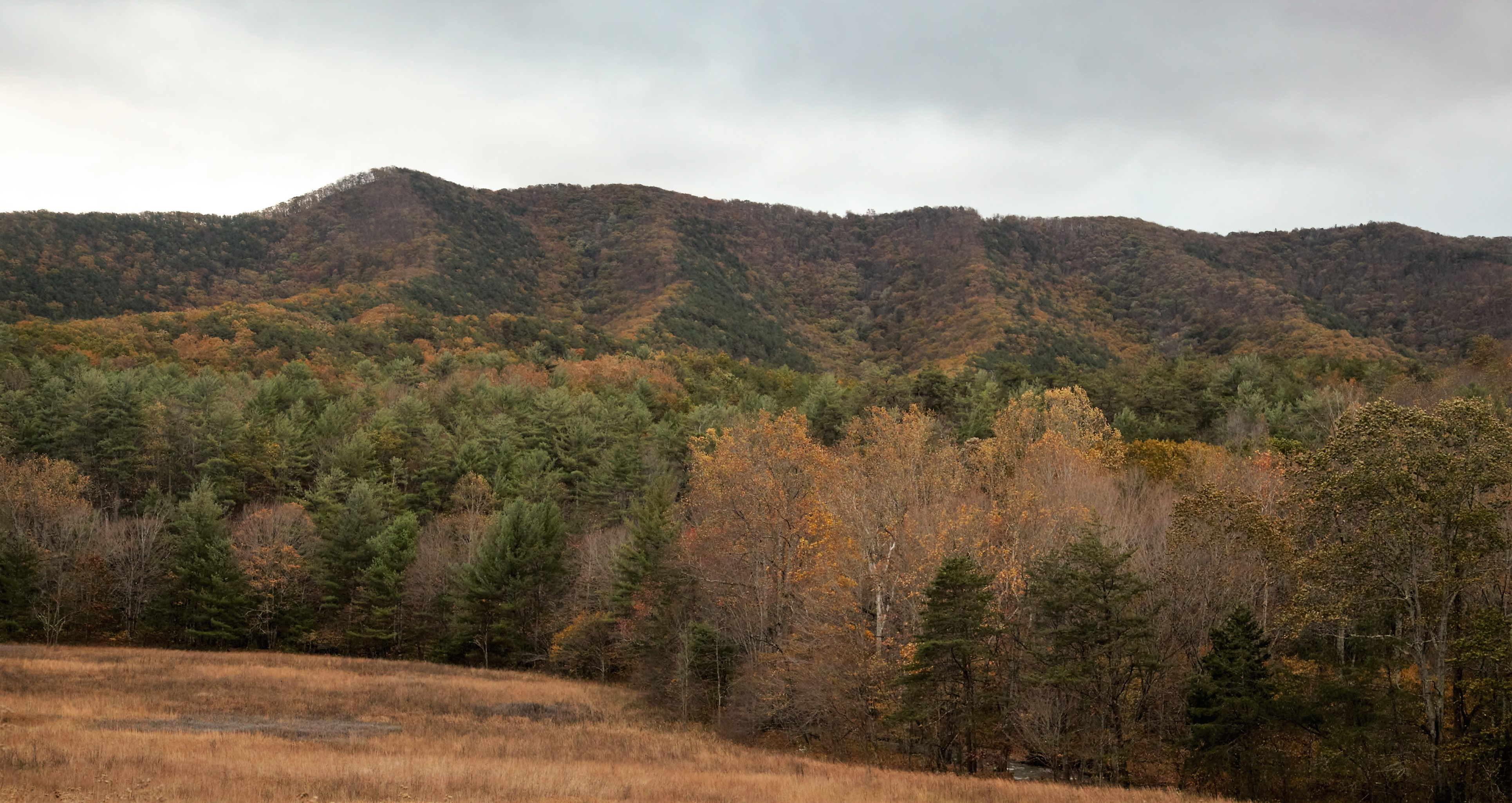 Brush Mountain, at border between Brush Mountain Wilderness and Brush Mountain East Wilderness, looking east from Caldwell Fields